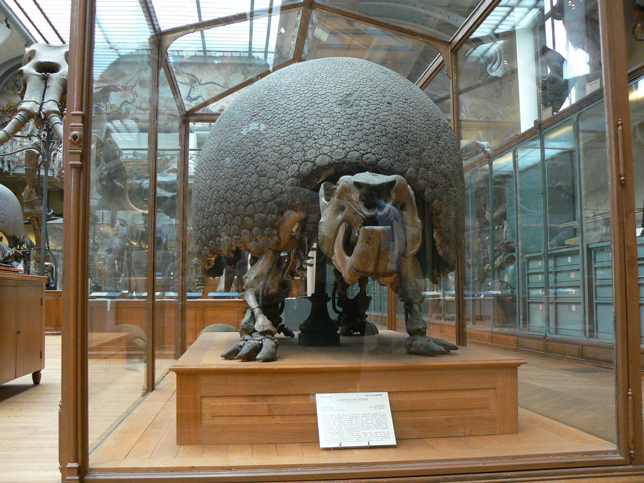 Glyptodon asper